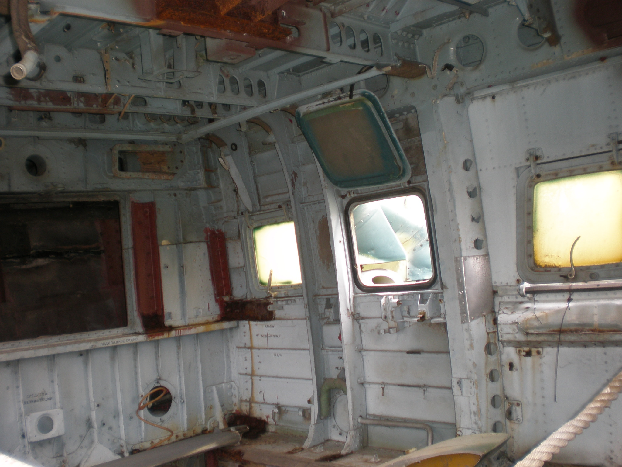 The cabin interior of a green Mil Mi-24 Hind on display on the flight deck of the aircraft carrier Minsk, located at the Minsk World theme park in Shenzhen, PRC.